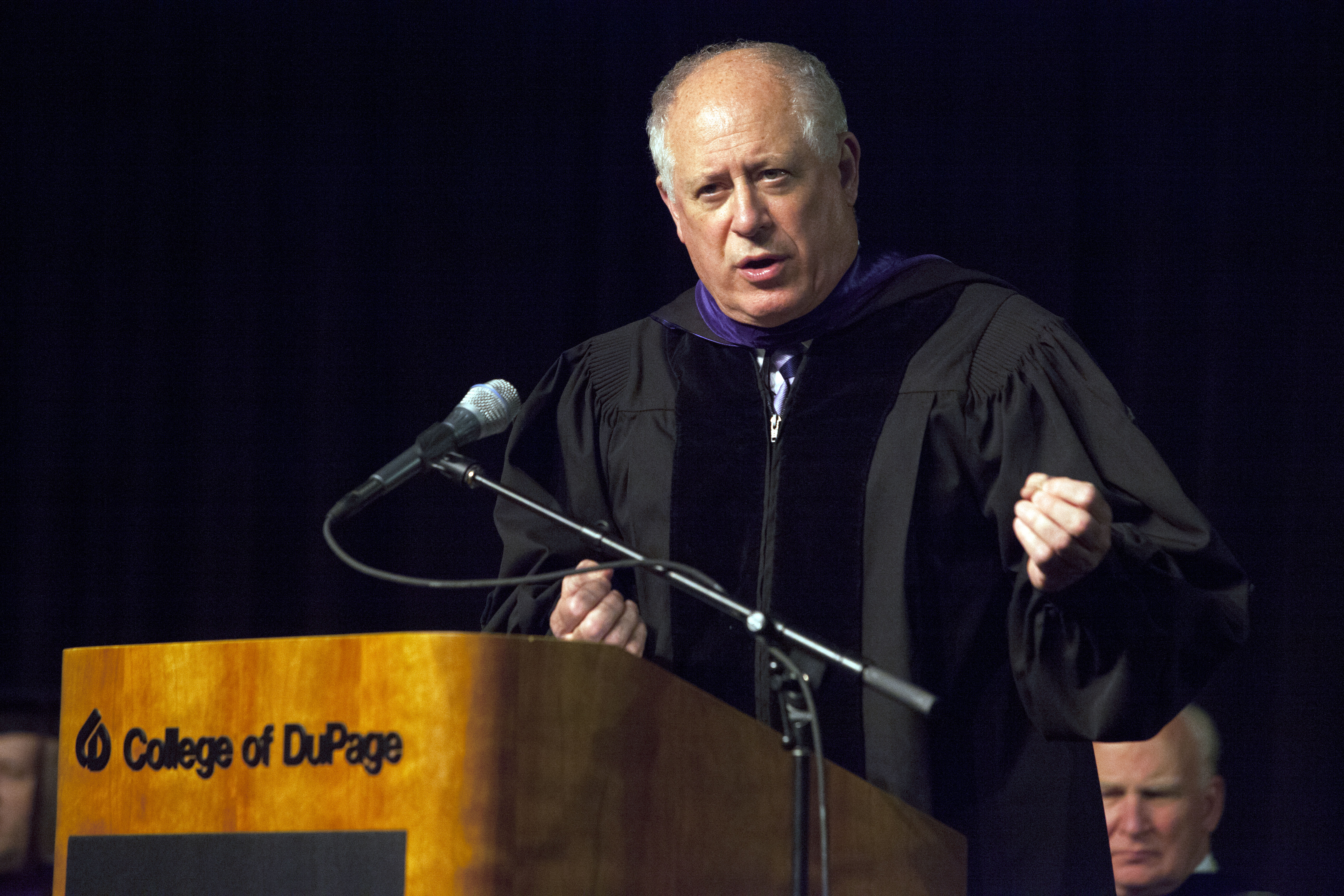 Governor Pat Quinn. College of DuPage recently held its 47th Annual Commencement Ceremony. The event was an opportunity to cerebrate students accomplishments, including the 2014 Outstanding Graduates Rachel Dau and Roxanne Peterson.